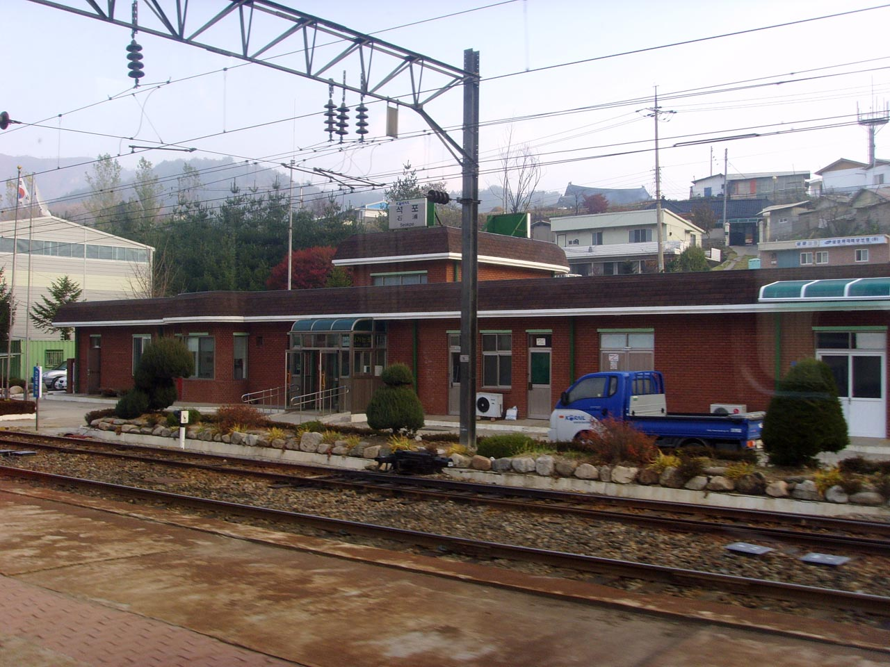 Seokpo Station (Yeongdong Line)